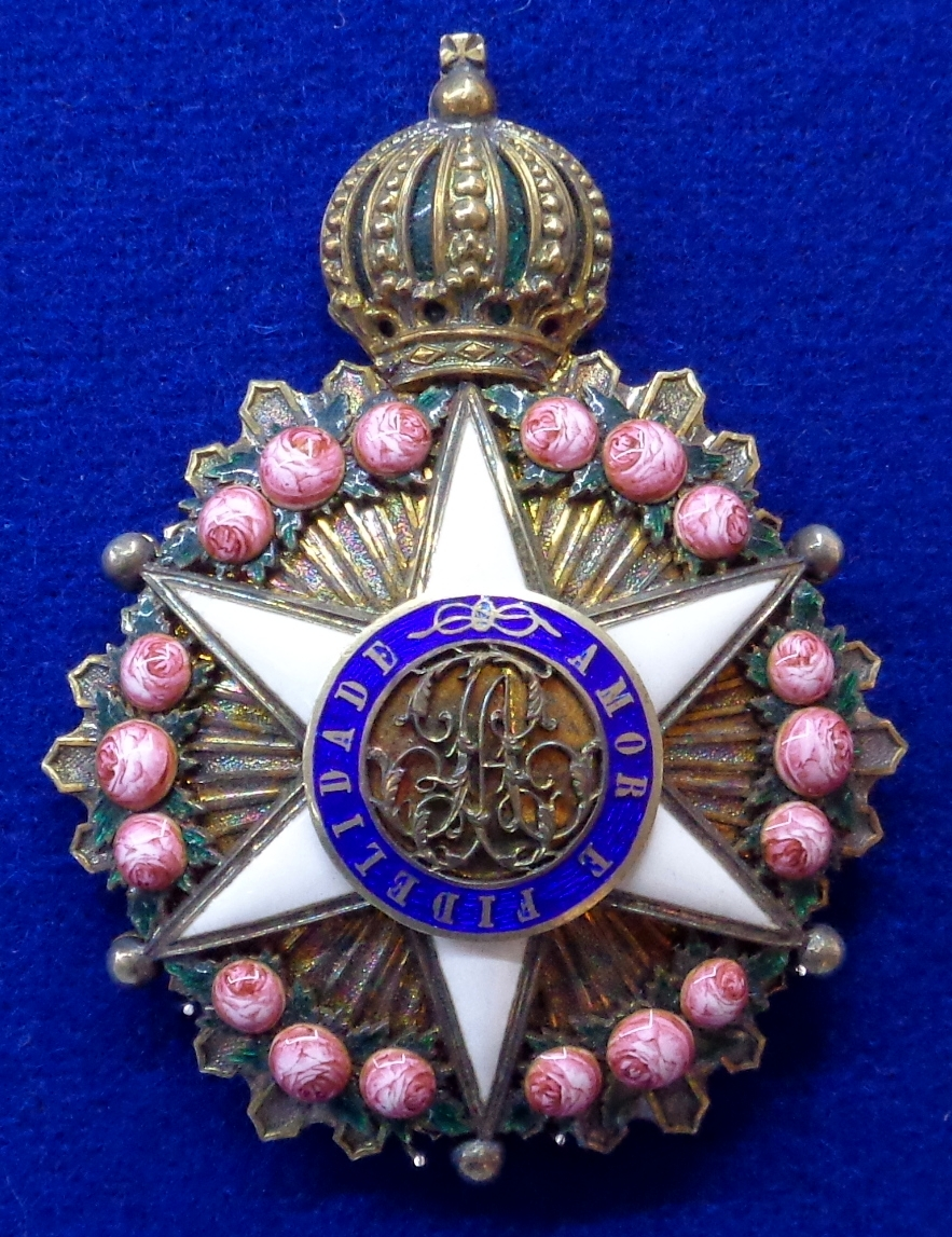 Order of the Rose, star, 186-1870. Empire of Brazil. The exhibition of the Tallinn Museum of Orders of Knighthood, Estonia.